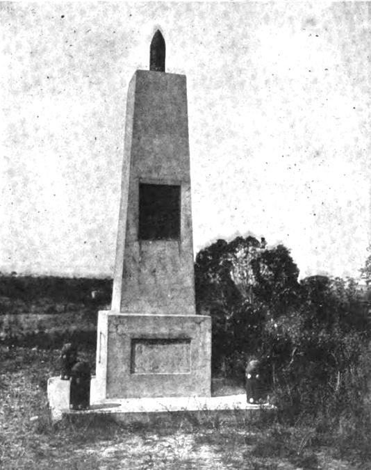 Photograph of the Rough Riders Memorial erected on San Juan Hill in Santiago de Cuba, Cuba, beteween 1899 and 1905. The plaque on the inscription reads "In memory of the officers and men of the United States army, who were killed in the assault and capture of this ridge, July 1, 1898, and in the siege of Santiago, July 1 to July 16, 1898. War between Spain and the United States." The memorial was erected by Brigadier General Leonard Wood, out of general funds alloted to the American military government of Cuba. The memorial consists of a square concrete base. On the four corners of the base are artillery shells. The memorial shaft is made of concrete in the style of an obelisk, and stands on a square base with blank sunk panels on all four sides. The bronze plaque is sunk into the face of the memorial. A naval armor-piercing shell is placed atop the shaft's flat top.